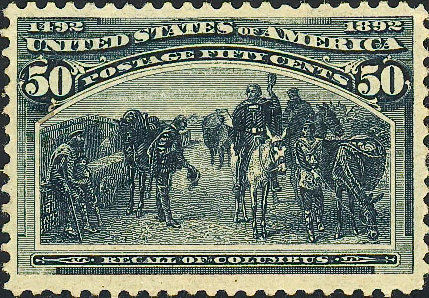 Columbian240-50c.jpg